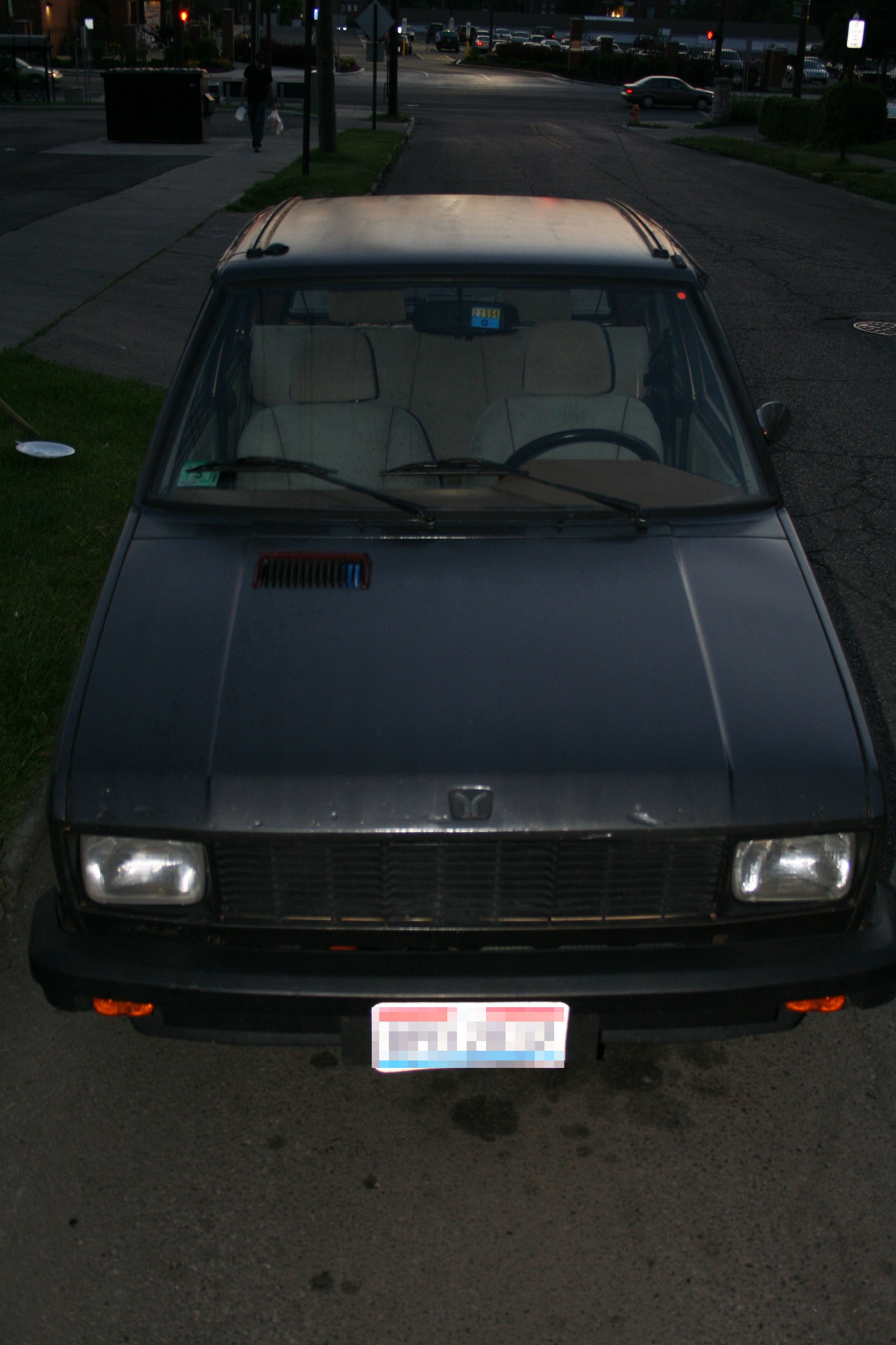 Black tuned Yugo GV.